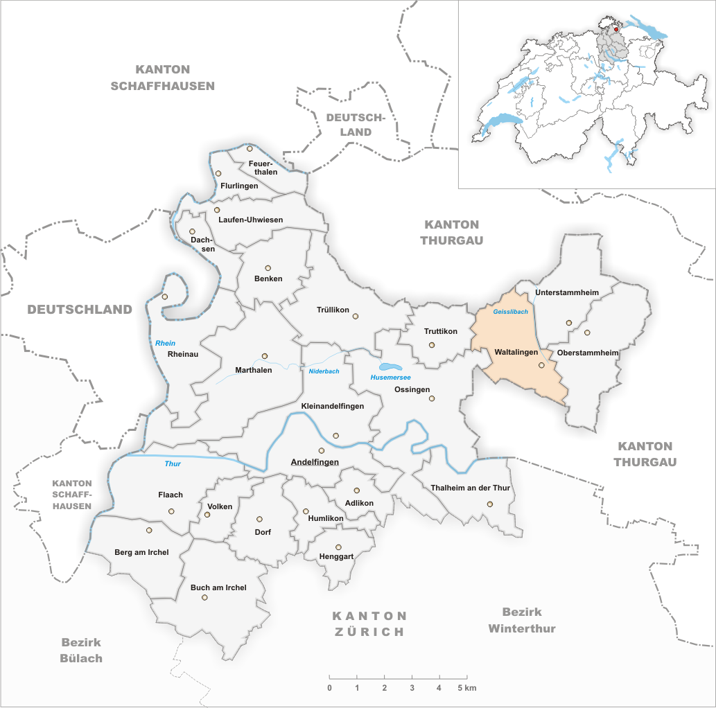 Municipality Waltalingen